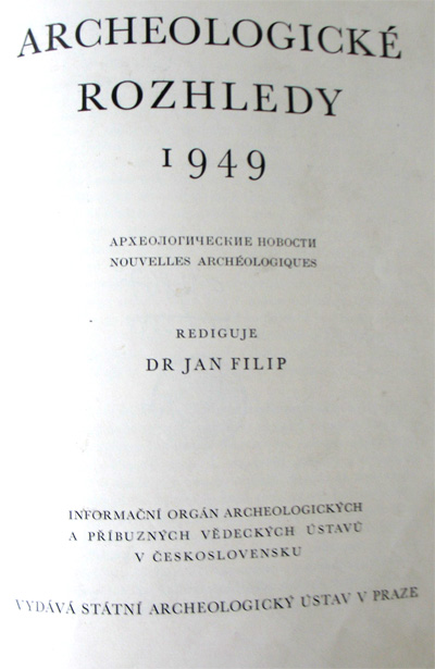 Archeologické rozhledy iss. I